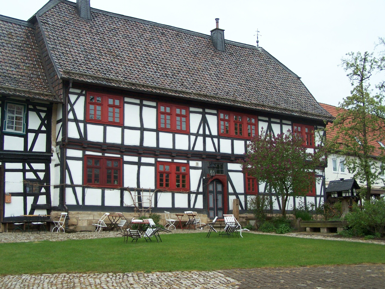 The Frackesche Gut a court in Heldra.